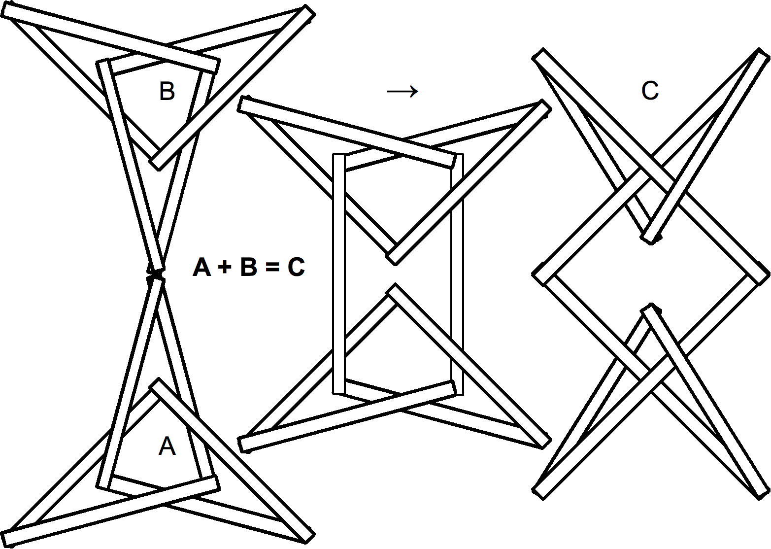 Square knot as the sum of a trefoil knot and its reflection, depicting their stick numbers.